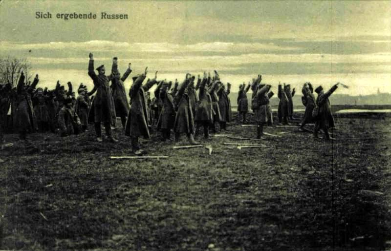 Russian POW's of World War I